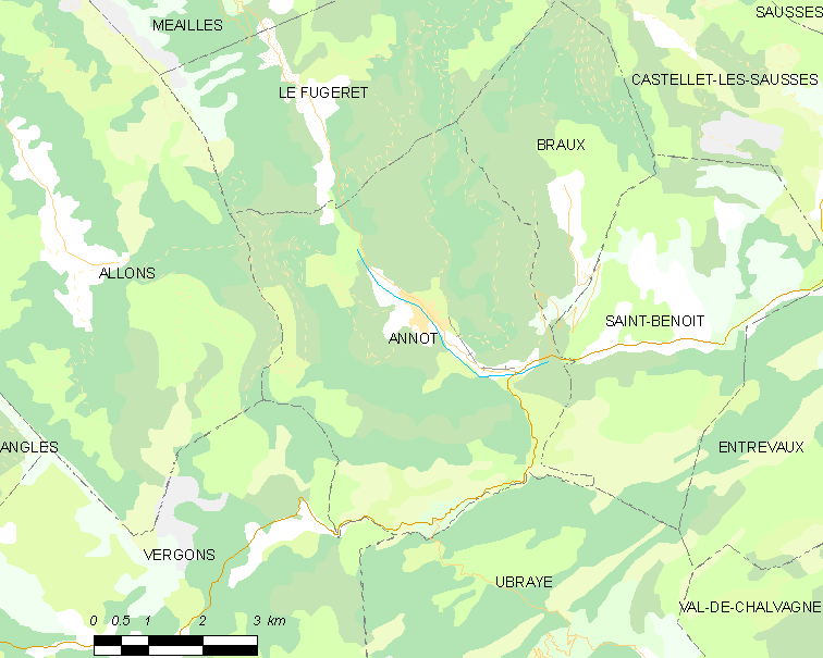 Map commune FR insee code 04008.png Légende